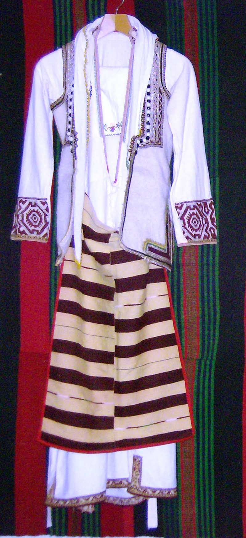 Nosija3.jpg